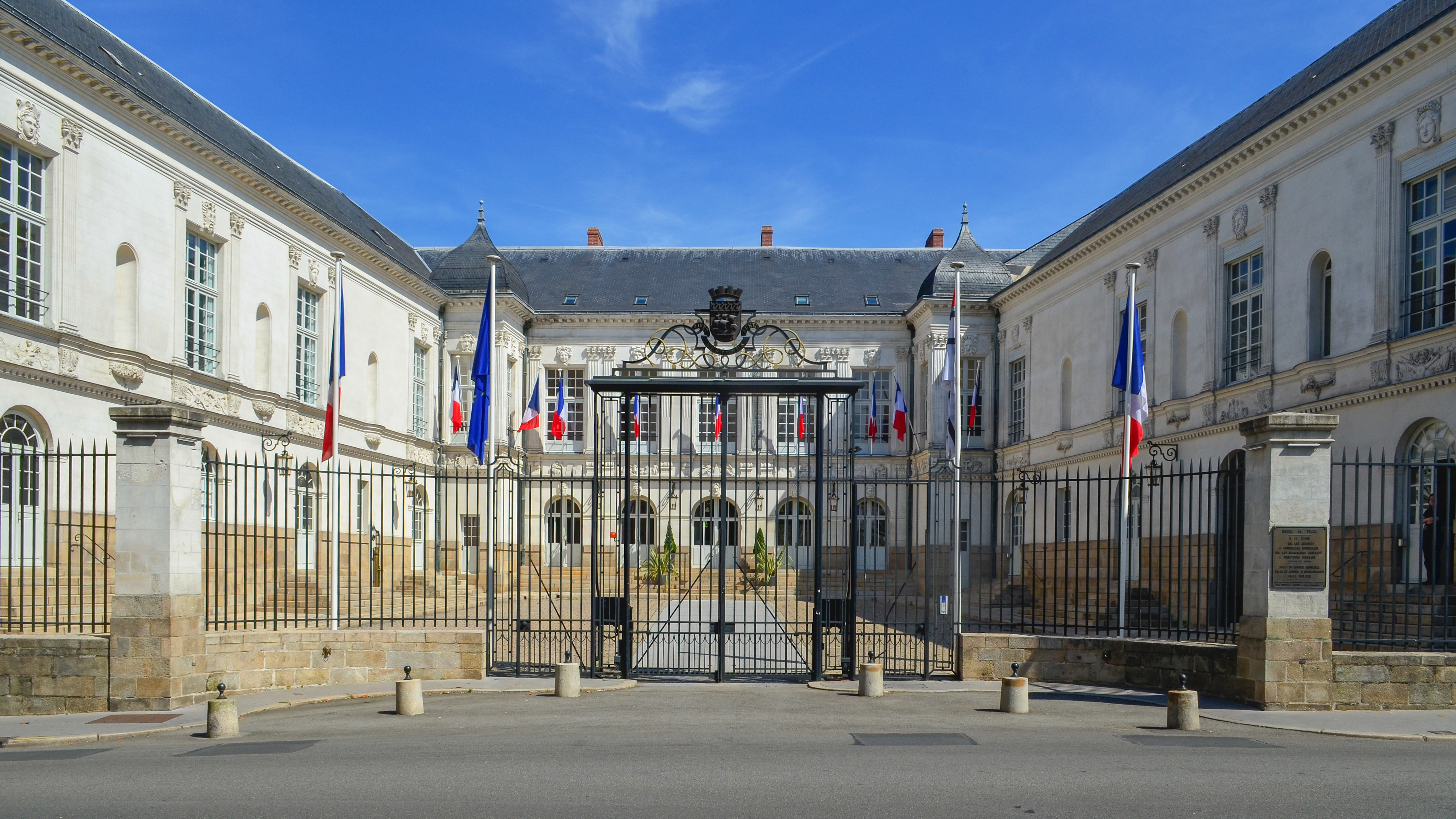 Derval manor, main building of Nantes city hall - France